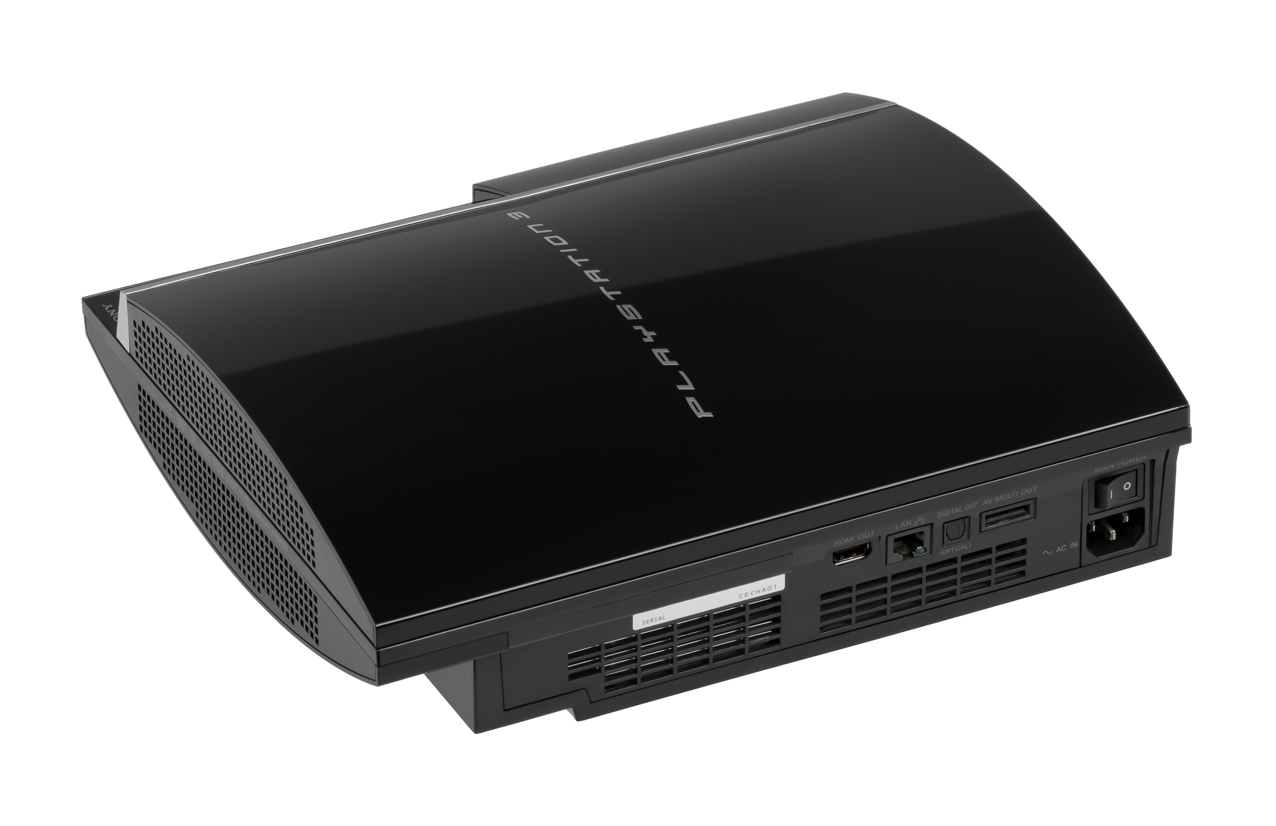 The back of the Sony PlayStation 3 (PS3) video game console, showing the inputs and outputs: HDMI OUT, LAN, DIGITAL AUDIO OUT, AV MULTI OUT, AC IN . This is a seventh generation console first released in 2006 as the successor to the PlayStation 2. This model is the CECHA01, one of the first two models released. It features a 60GB hard drive, hardware-based backwards compatibility with PS2 games and flash memory card readers.